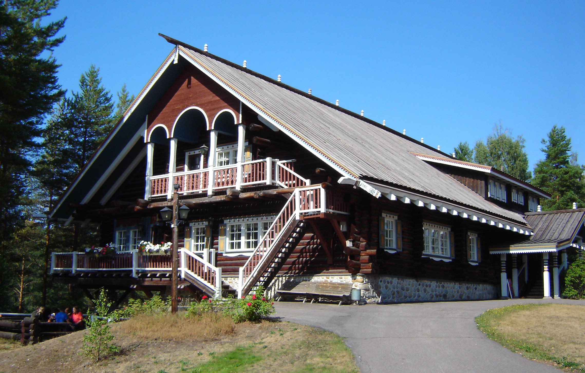 Restaurant Kägöne near Parikkala, Finland. The house was built in 1986 imitating traditional wooden architecture from Ladoga Karelia.